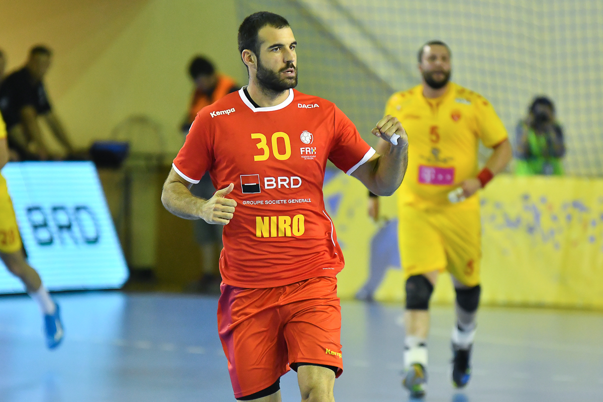 Macedonia - Romania handball match 2018-06-13